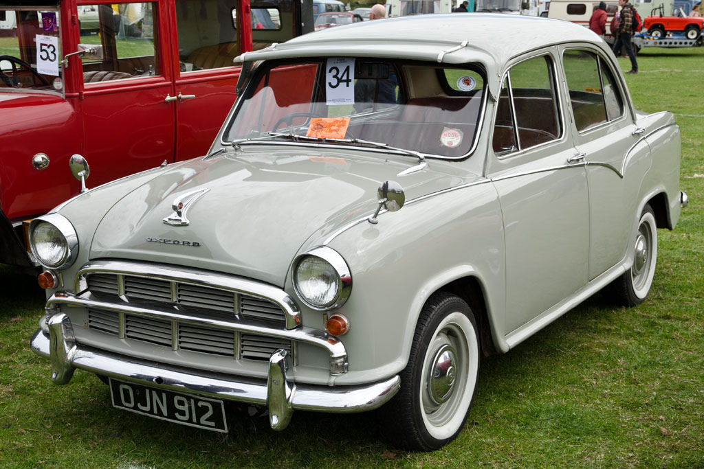 1958 Morris Oxford Series III saloon (DVLA) first registered 10 January 1958, 1498cc Llandudno Transport Festival 04/05/2013